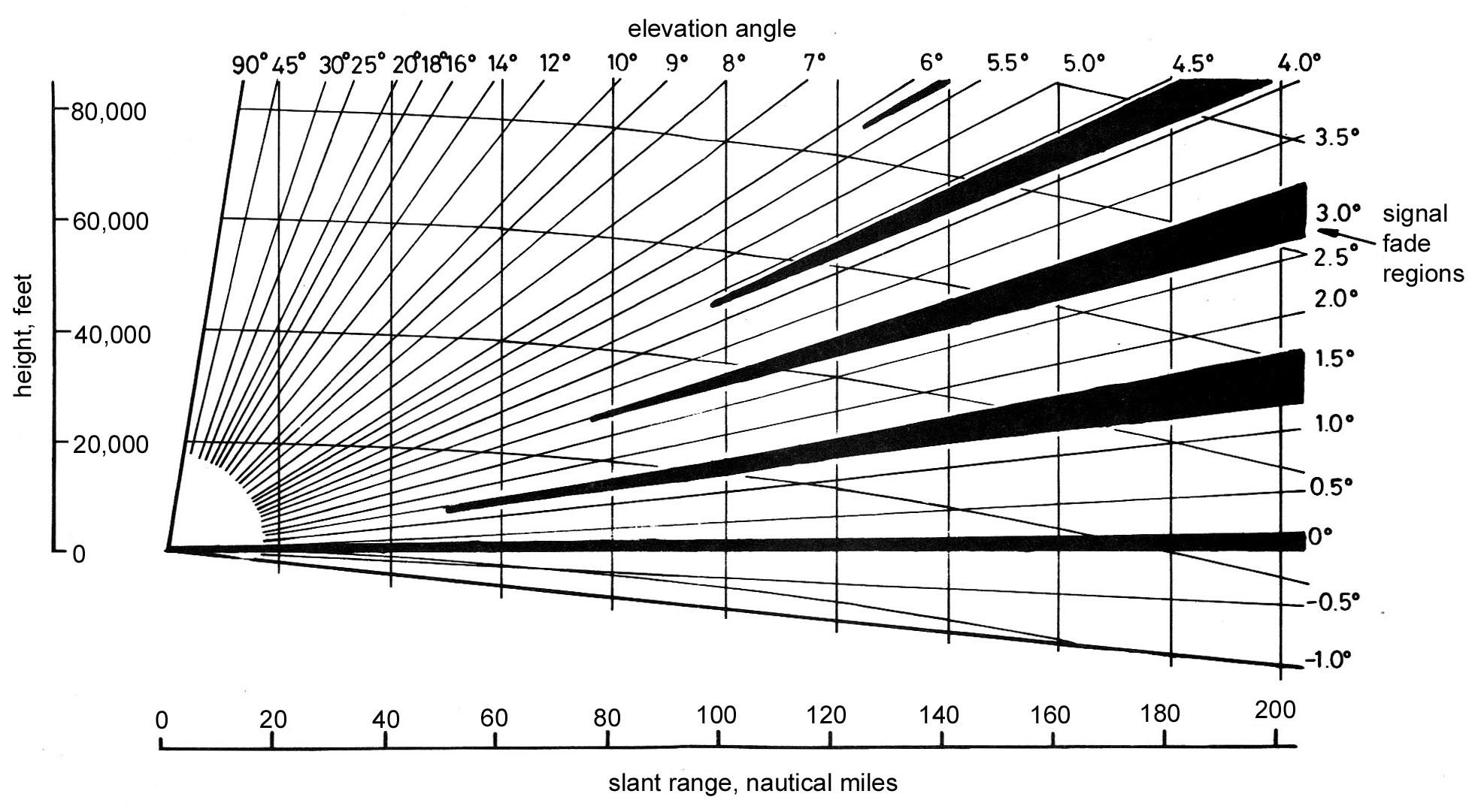 Shows regions of signal fade due to ground reflection